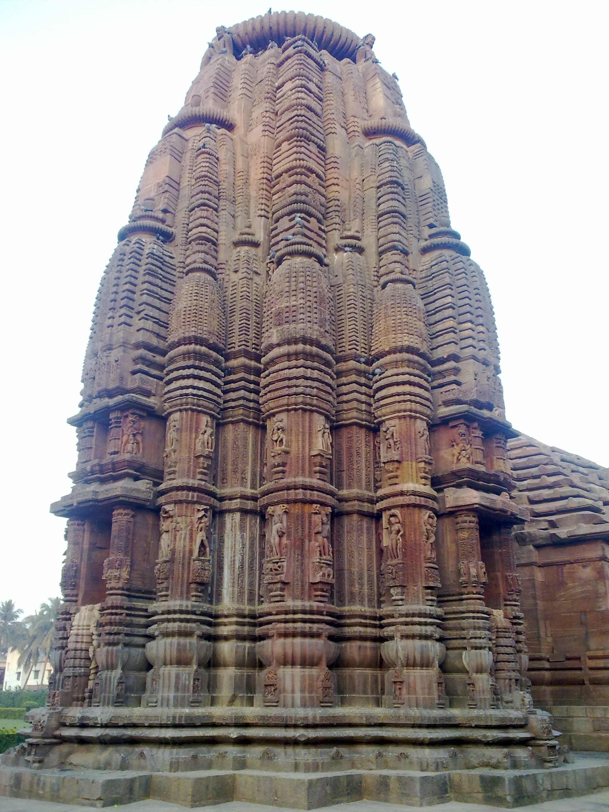 A view of Rajarani Temple. Location: The Rajarani temple, Bhubaneswar (Lat.200 15’ N Long. 850 50’ E) in the district of Khurda, Odisha State, India.